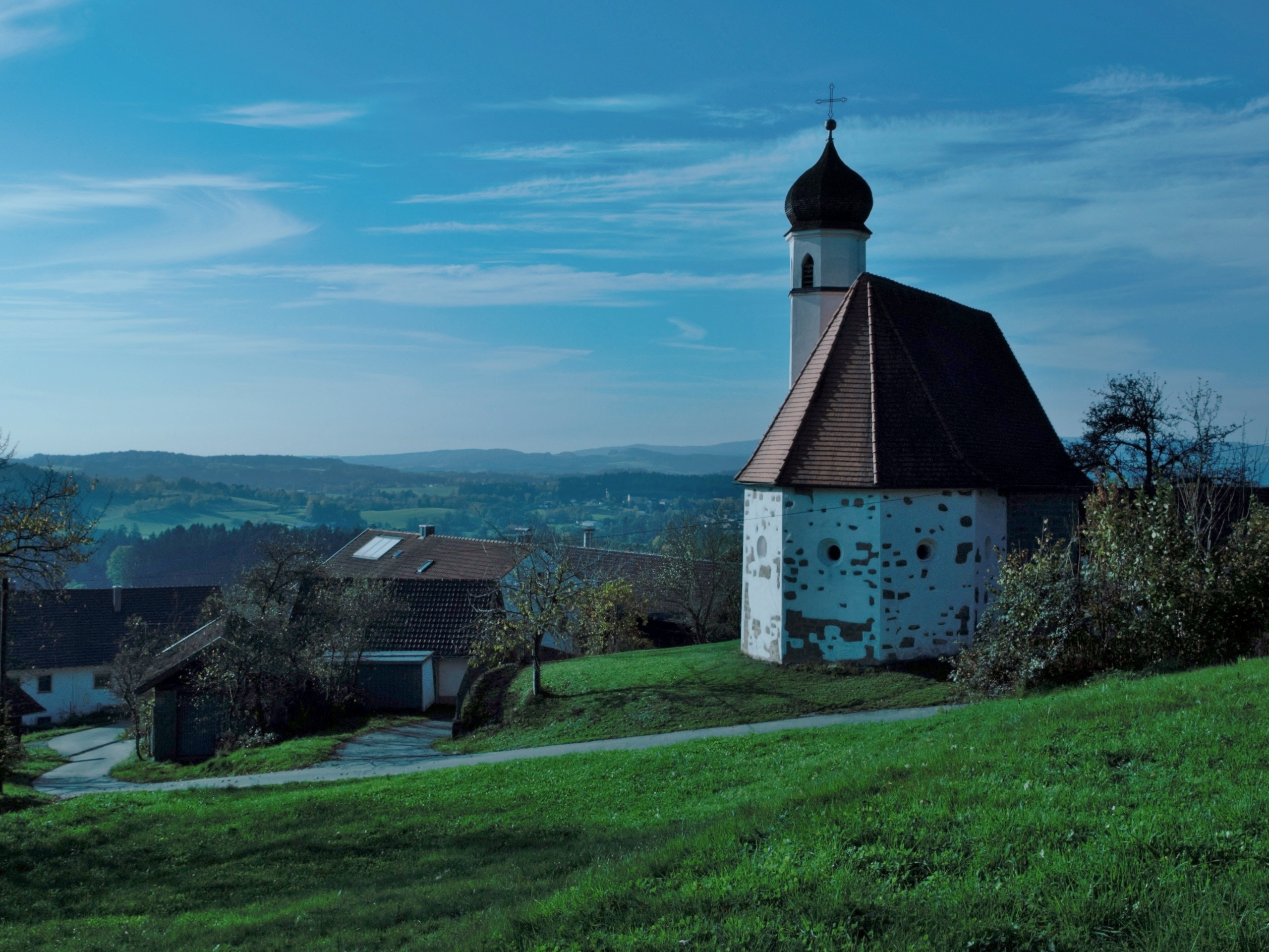 John the Baptist church in Landasberg, municipality of Haibach, Lower Bavaria, Germany